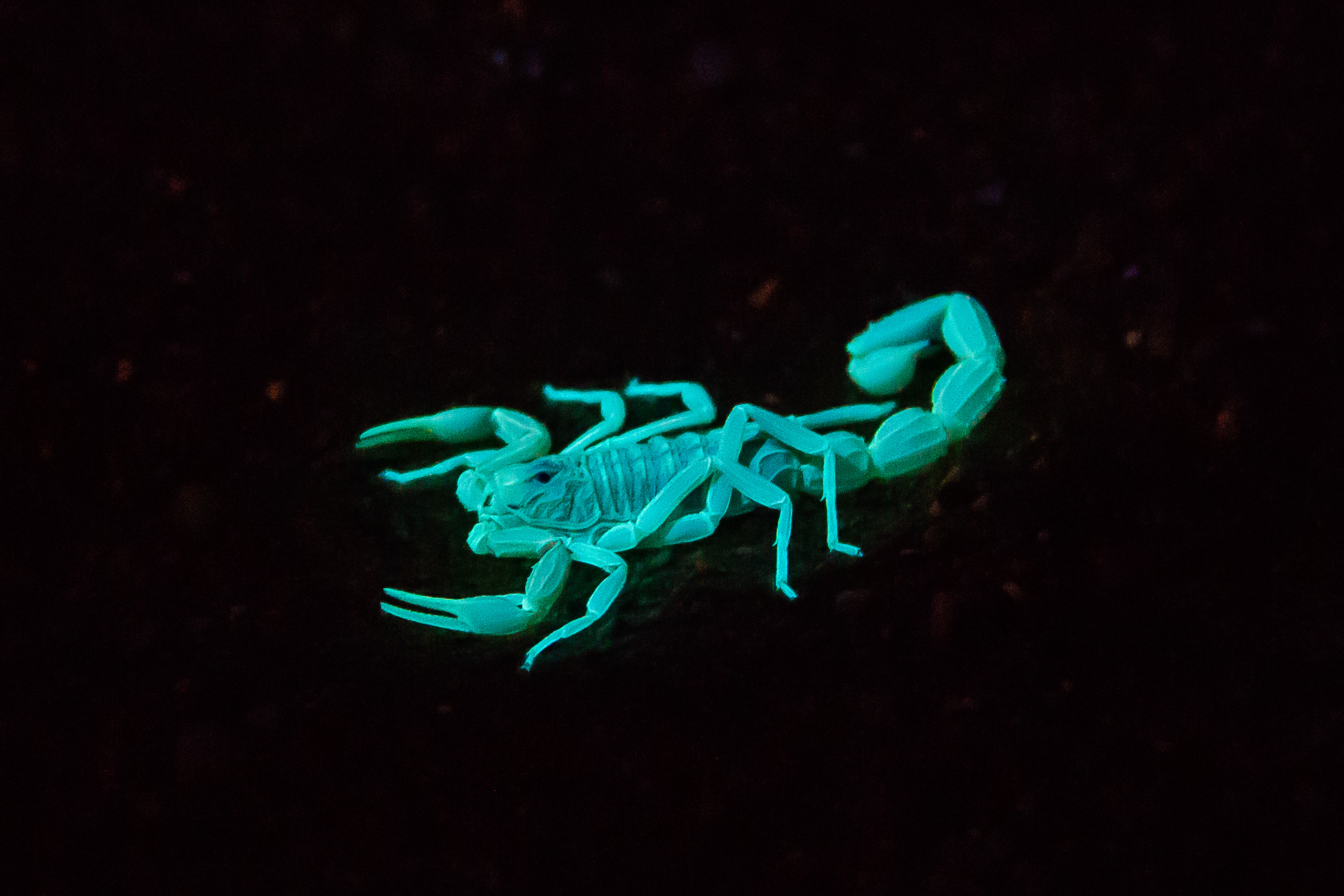 Scorpion leiurus quinquestriatus illuminated by UV light in the Negev desert.